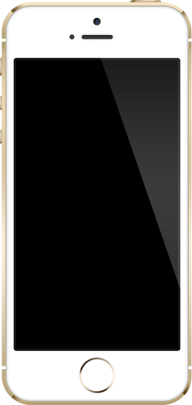 A mockup of the golden Apple iPhone 5S.